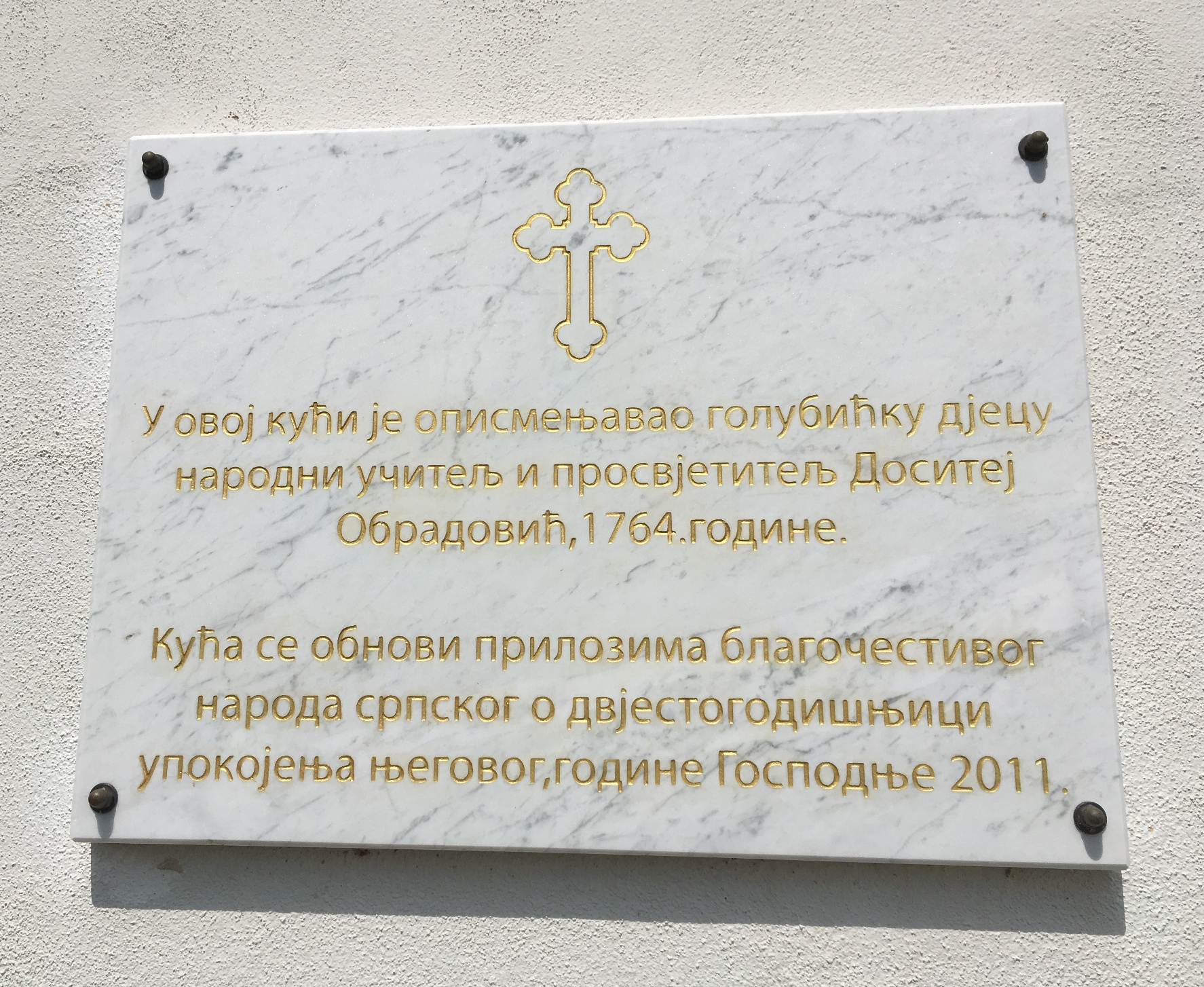 A plaque on the house in which Dositej Obradović lectured, Golubić, near Knin